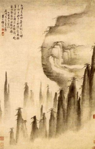 Two Immortals on Huangshan. Ink on paper, 19 in x 29.9 in.